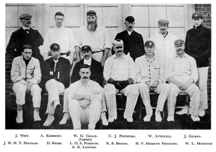 London County v. Gloucestershire, June 1903.